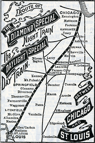 Advertising appearing in Illinois Central Railroad public timetable, published in February 1901.